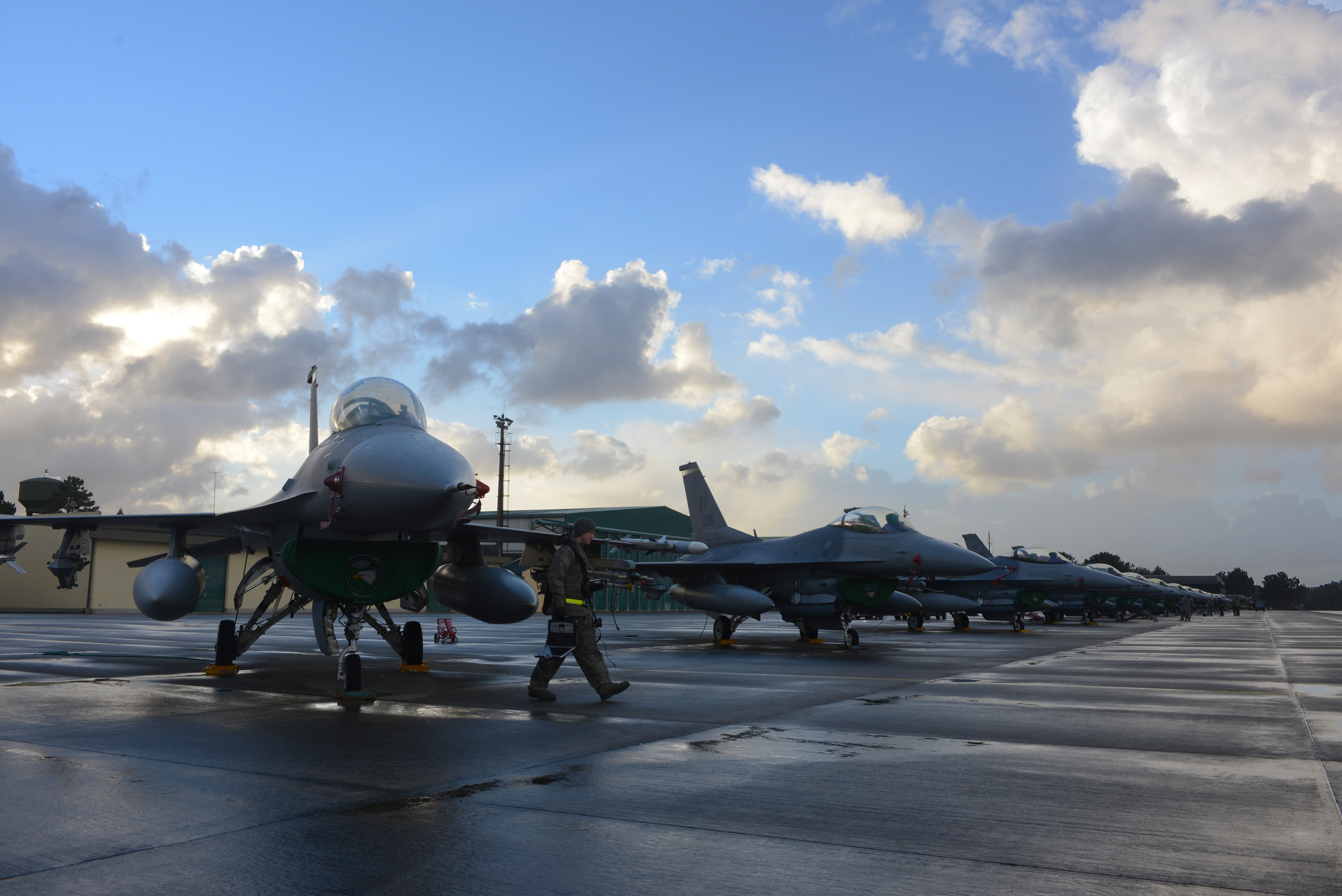 In preparation for a Feb. 9, 2014, Atlantic storm, 14 F-16 Fighting Falcons from the 31st Fighter Wing were lined up on the Monte Real Air Base flightline to protect them from overhanging foliage and debris.